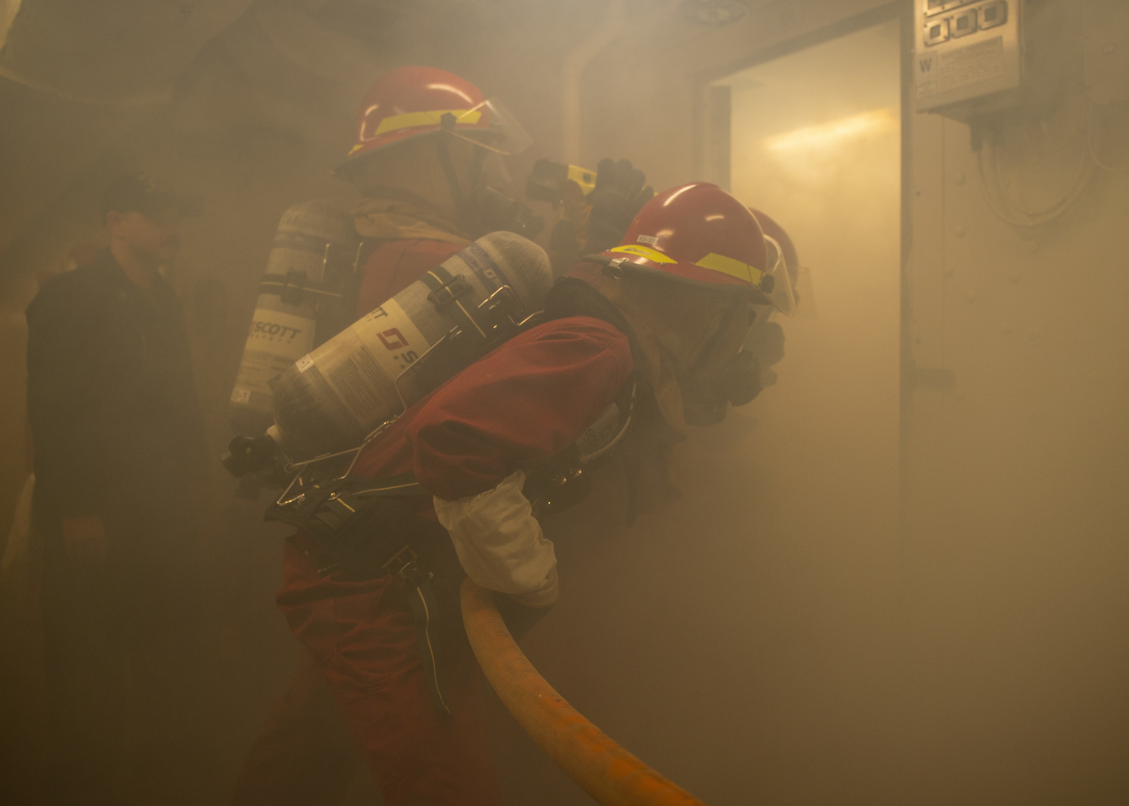 MEDITERRANEAN SEA (April 23, 2019) Sailors participate in a fire drill exercise aboard the Arleigh Burke-class guided-missile destroyer USS Bainbridge (DDG 96). Bainbridge is underway as part of the Abraham Lincoln Carrier Strike Group deployment in support of maritime security cooperation efforts in the U.S. 5th, U.S. 6th and U.S. 7th Fleet areas of operation. With Abraham Lincoln as the flagship, deployed strike group assets include staffs, ships and aircraft of Carrier Strike Group (CSG) 12, Destroyer Squadron (DESRON) 2, USS Leyte Gulf (CG 55) and Carrier Air Wing (CVW) 7; as well as the Spanish navy Alvaro de Bazan-class frigate ESPS Mendez Nunez (F 104). (U.S. Navy photo by Mass Communication Specialist Seaman Jason Waite/Released)190423-N-SS350-0016